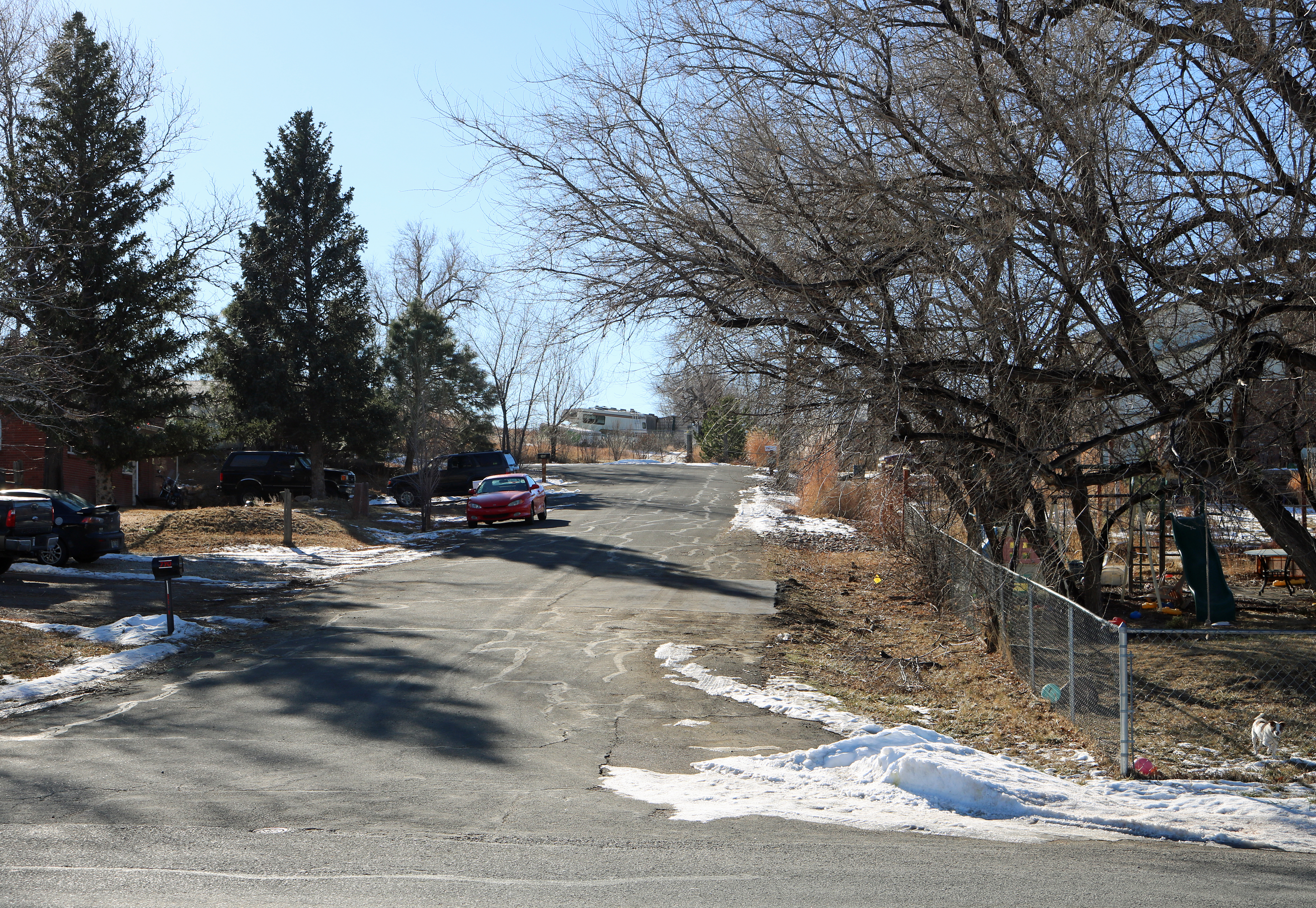 A view of East Pleasant View, Colorado. The view is of Ellis Street, looking south from West 8th Avenue. Here, Ellis Street is a cul-de-sac.